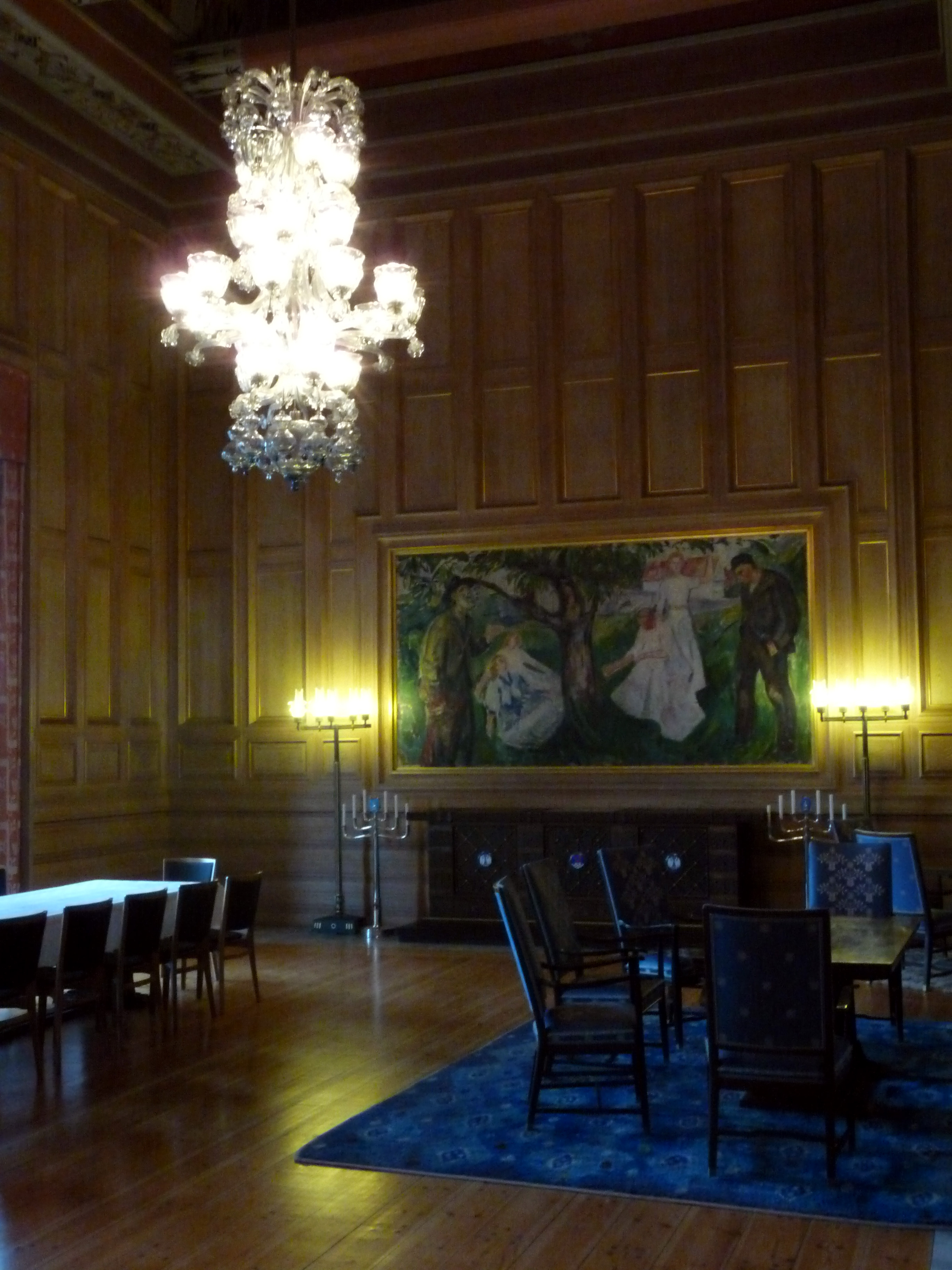 Interior of Oslo City Hall